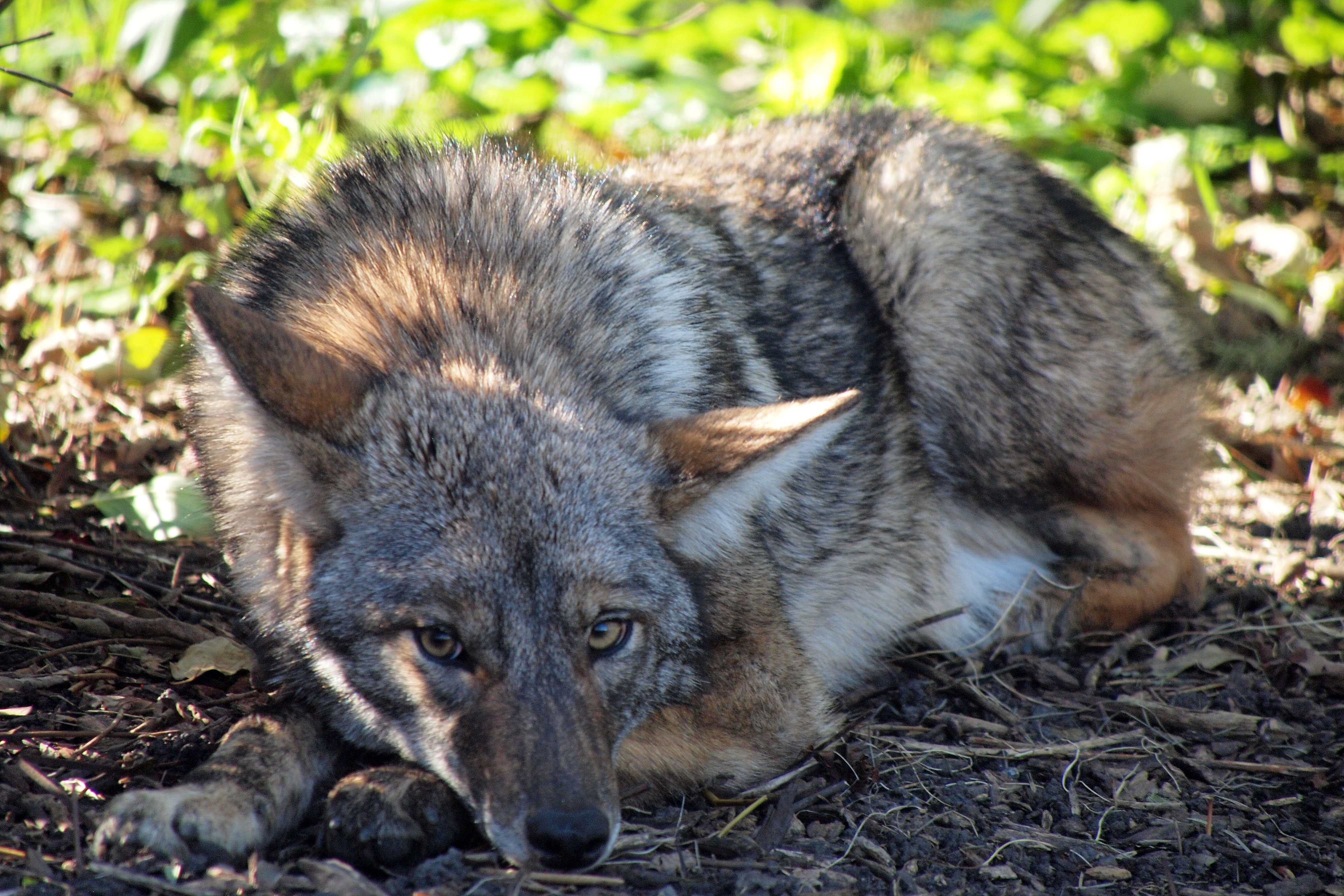 Coyote in Lincoln Park near Belmont Harbor, Chicago, IL.